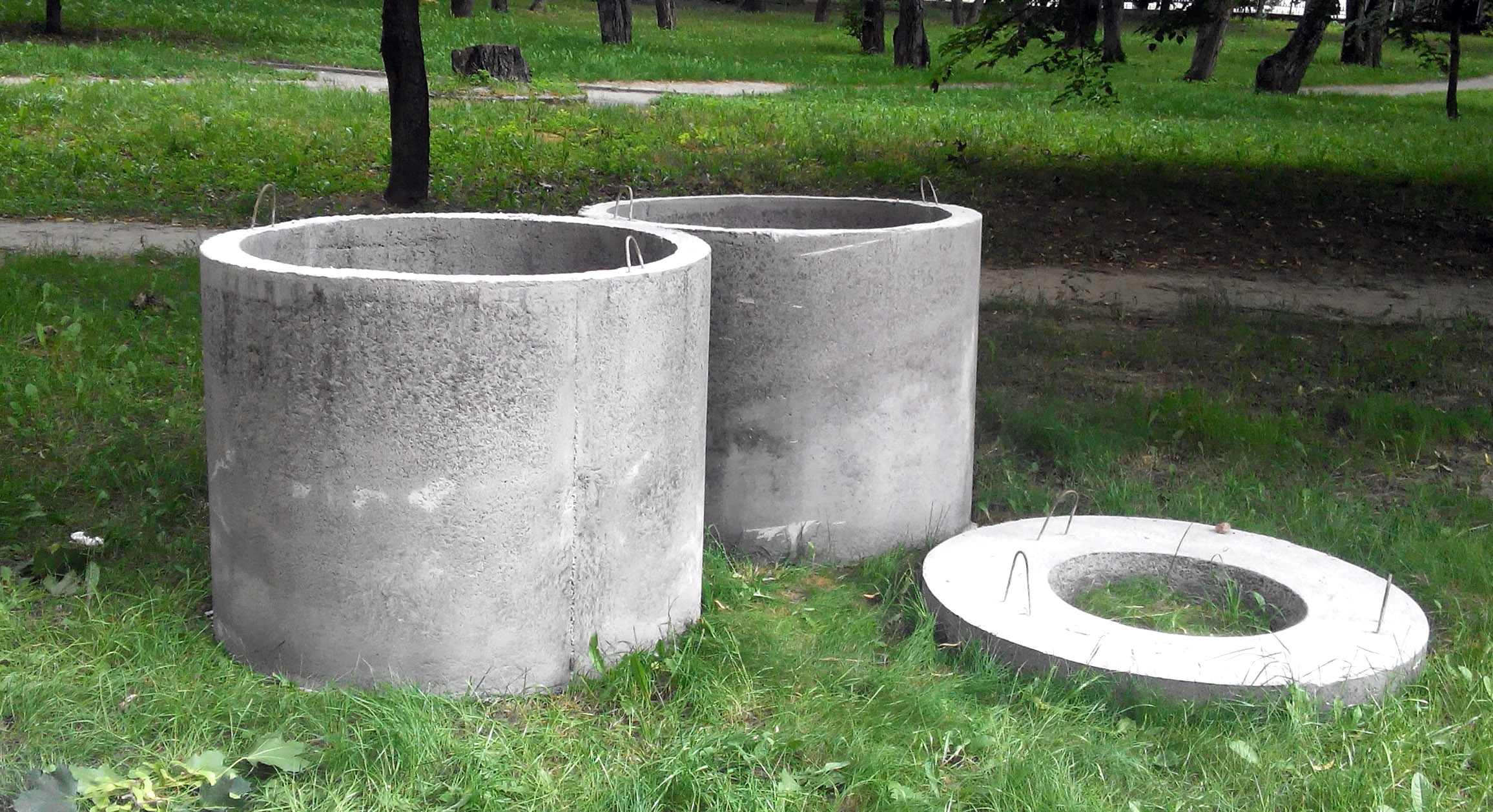 Some elements from the set of concrete well parts